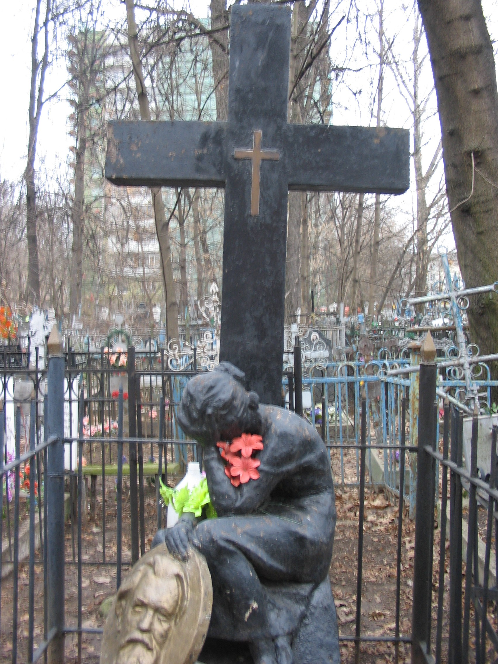 Grave of archipriest Semov, d. 1957